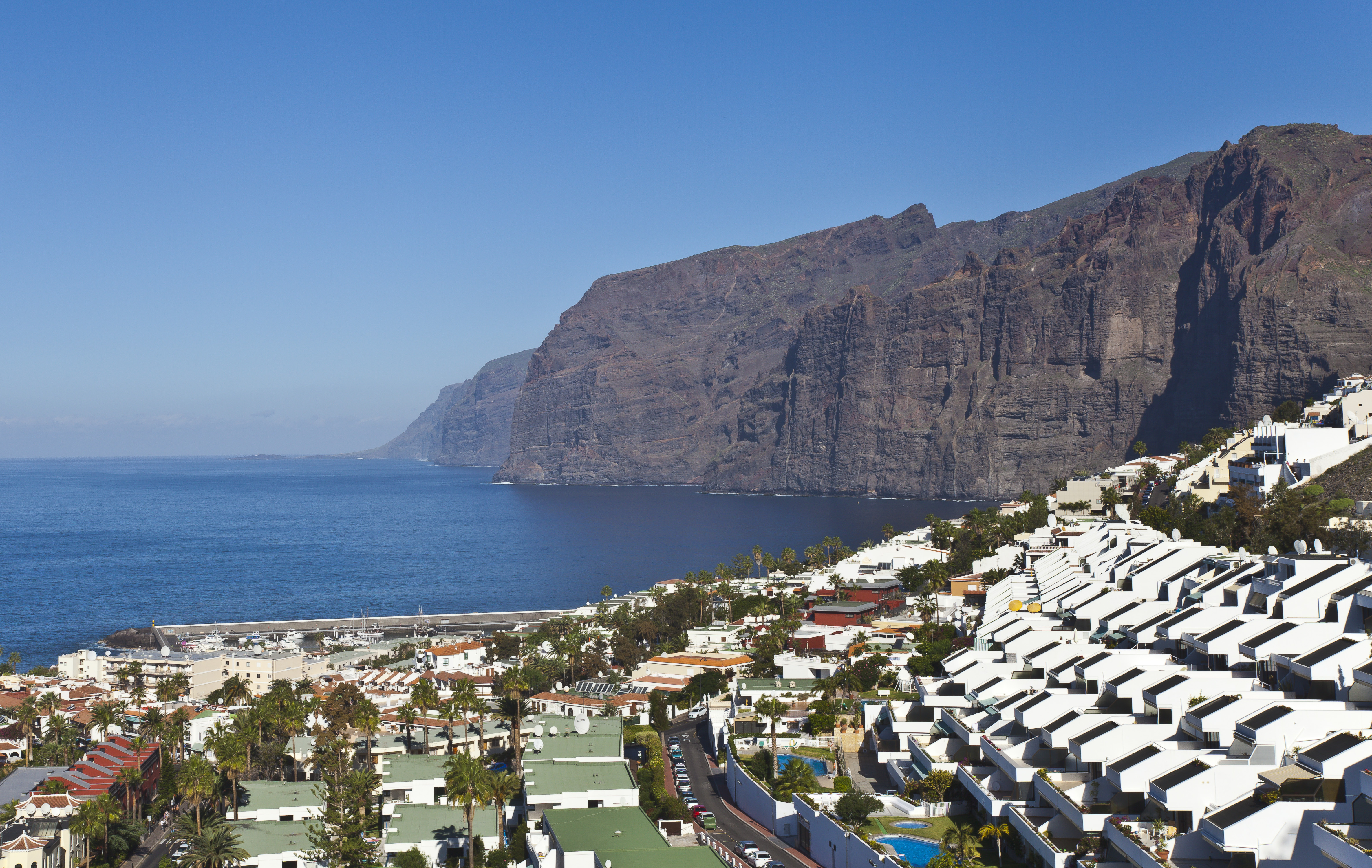 Los Gigantes, Tenerife, Spain